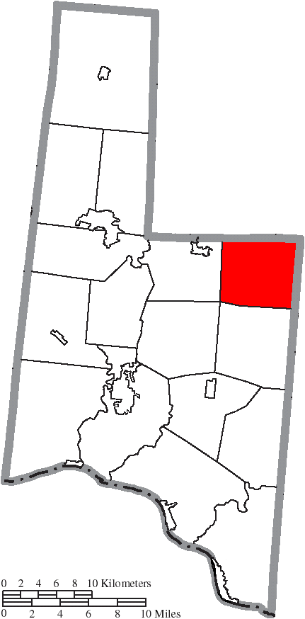 Map of the municipal and township boundaries of Brown County, Ohio, United States, as of the 2000 census, with the location of Eagle Township highlighted. Township borders are shown only in unincorporated areas in order to differentiate incorporated and unincorporated areas more clearly.